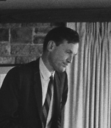 William Bundy at advisors meeting at Camp David